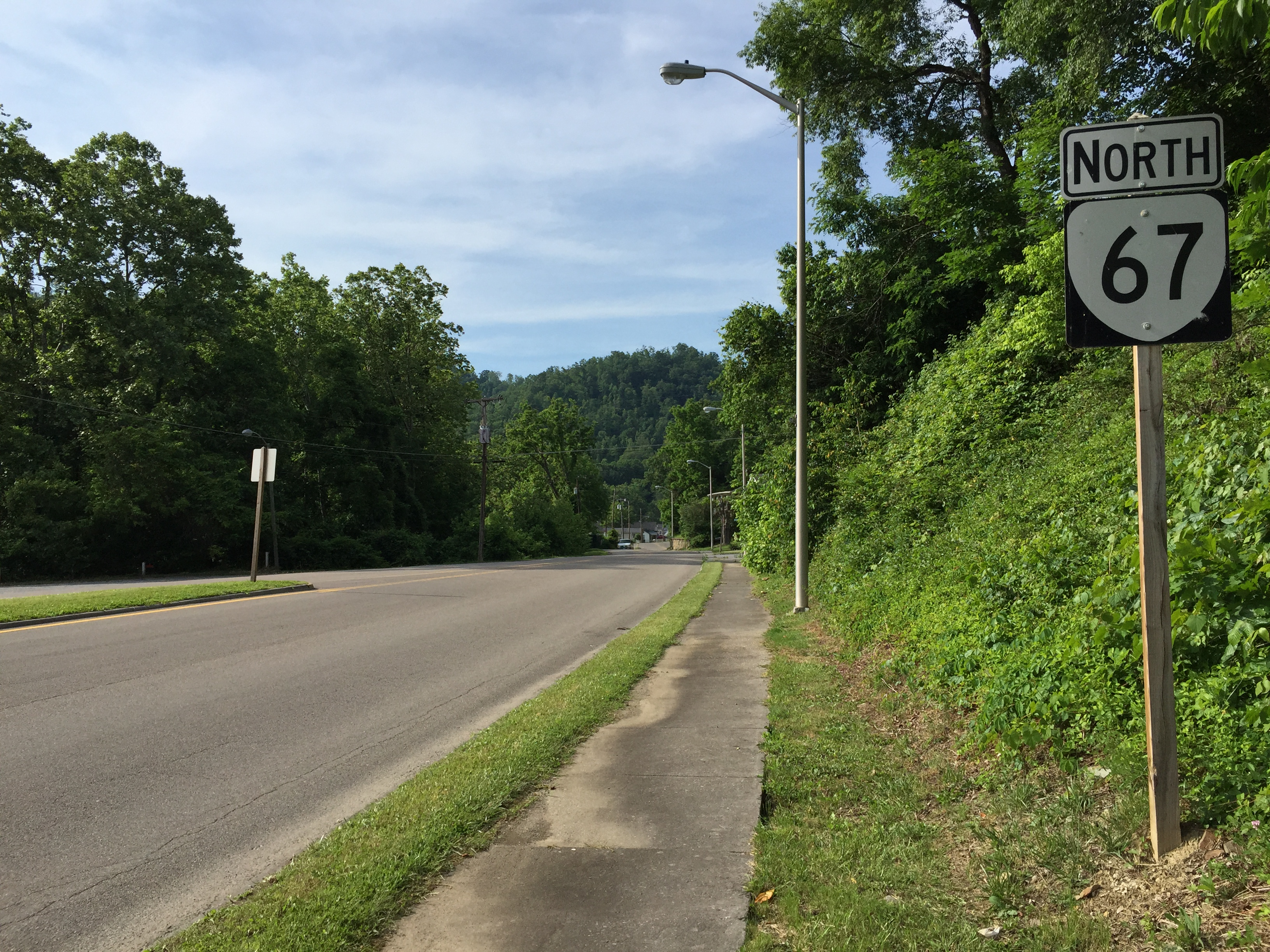 View north along Virginia State Route 67 (Big Creek Road) between Kentucky Avenue and Brown Hollow Road in Richlands, Tazewell County, Virginia